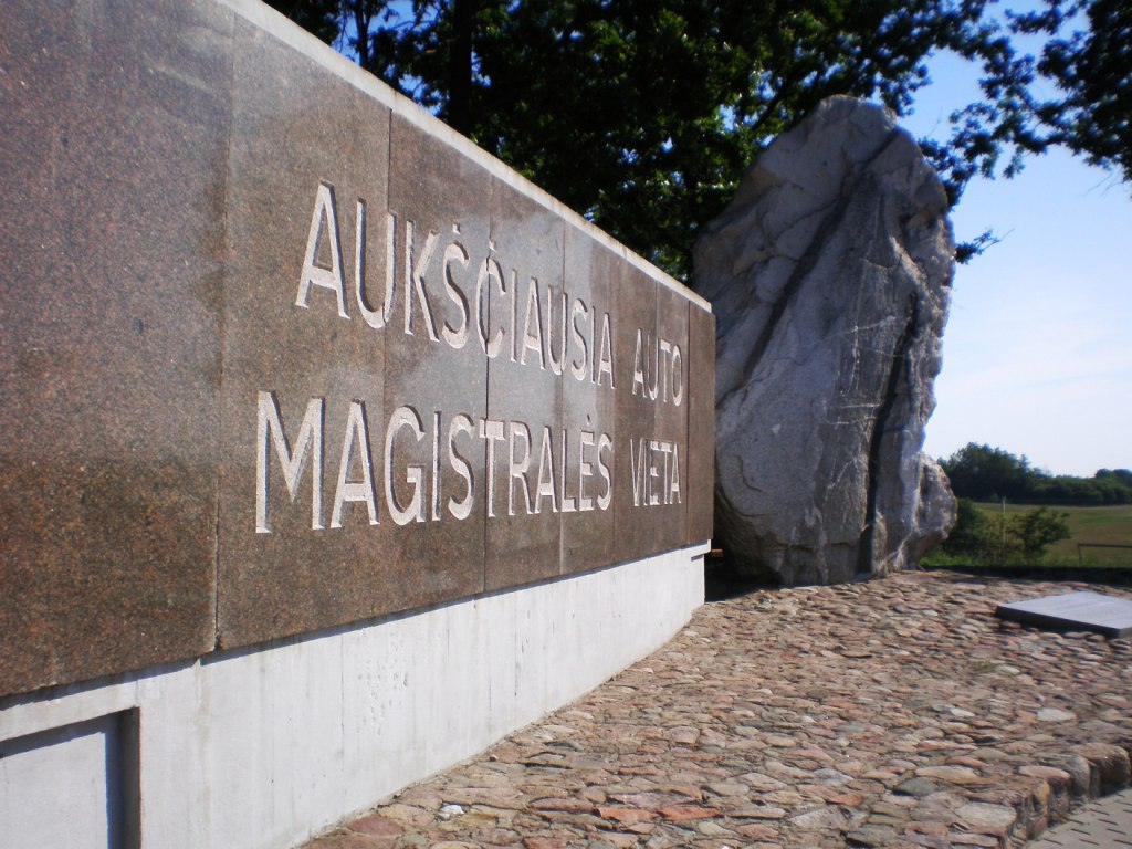 The highest point of highway A1 Vilnius-Klaipėda (Lithuania)